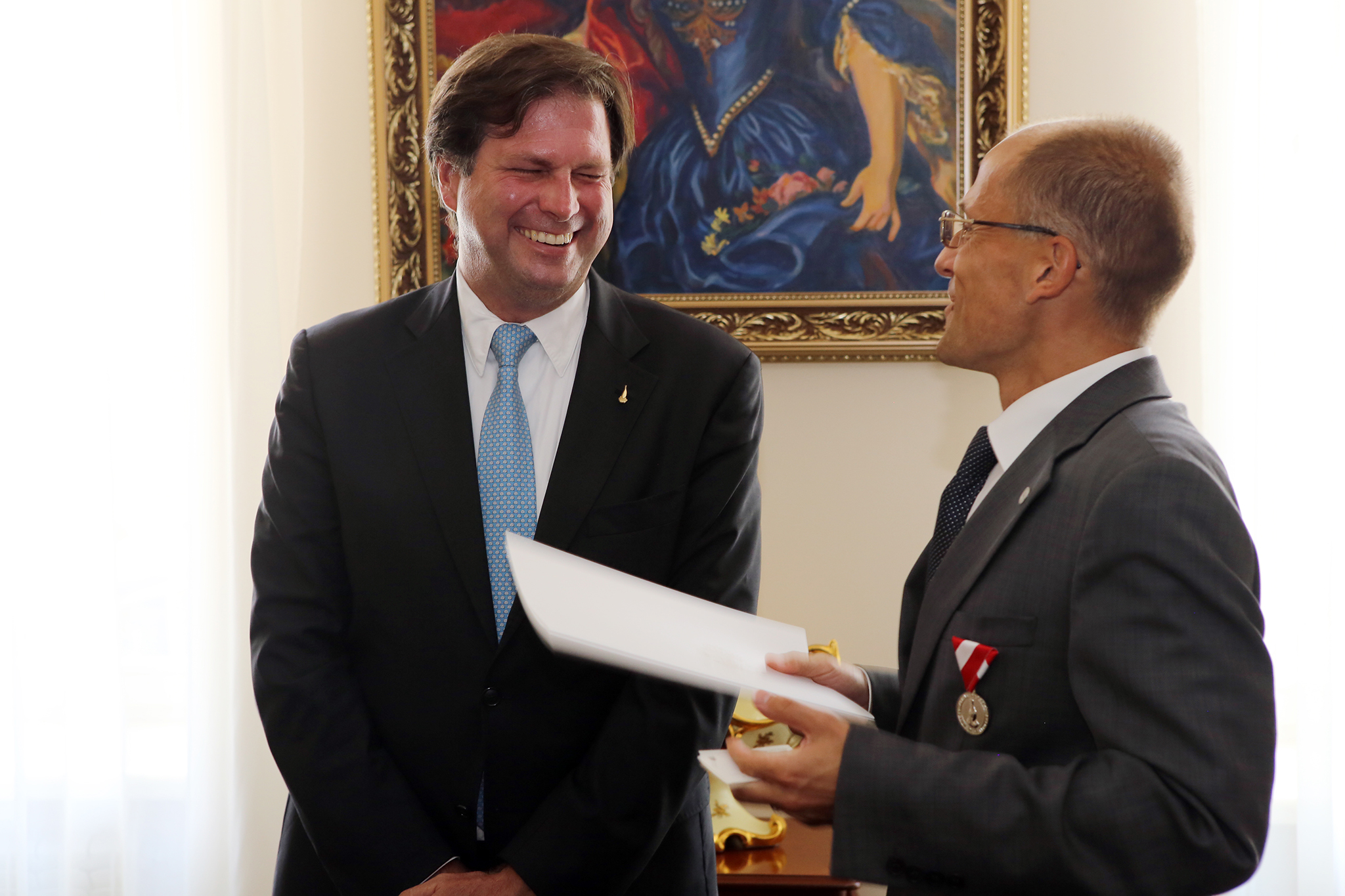 Sandor von Habsburg&Dr.Alen Panov, meeting in Maria Theresia Garden Square